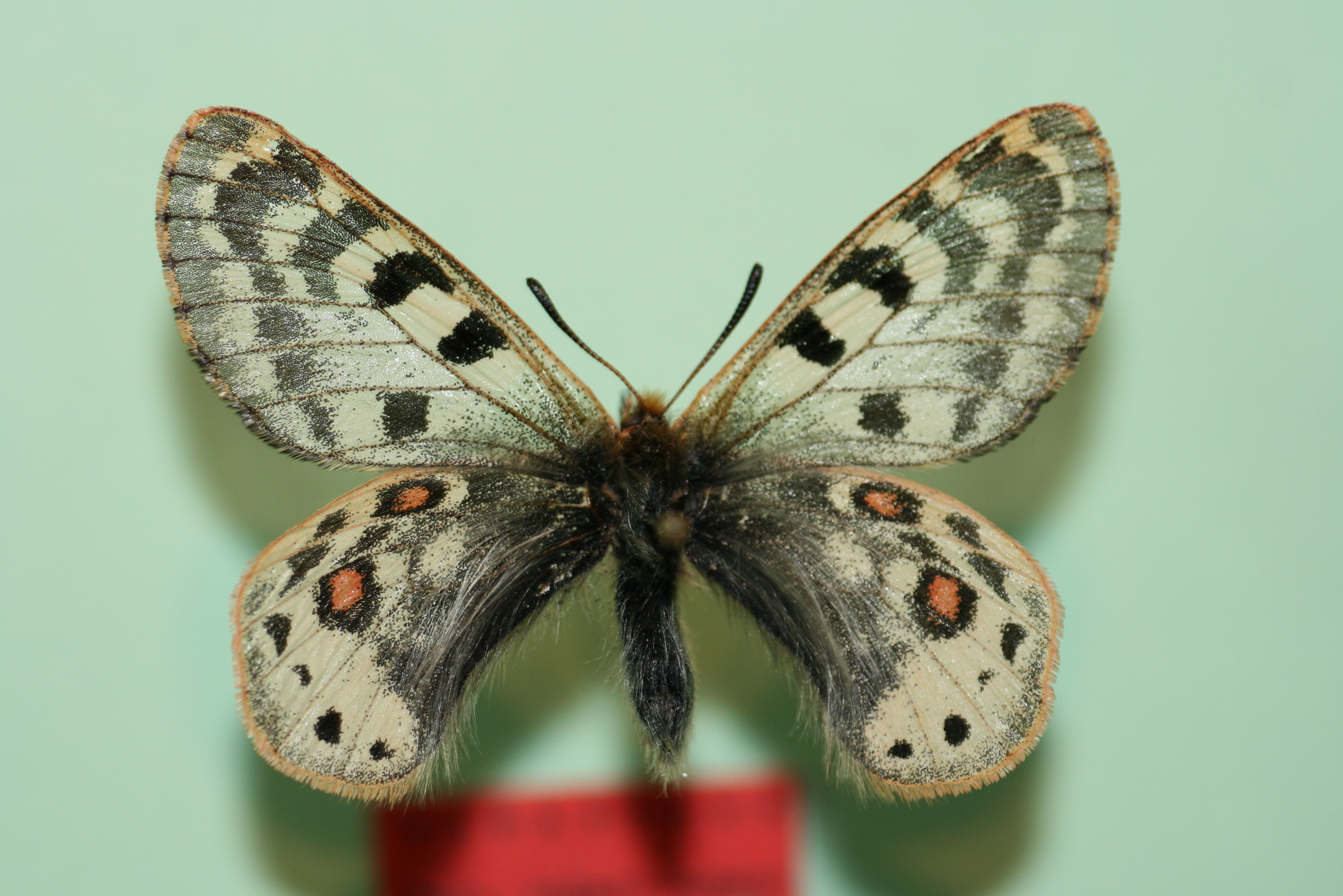 Parnassius huberi male.Photo by Felix Stumpe